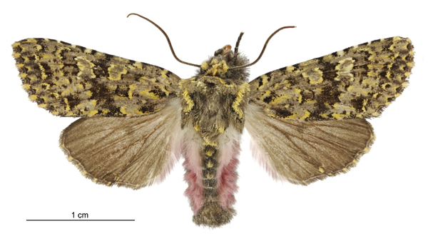 Male specimen of Meterana pictula photographed by Birgit E. Rhode, Landcare Research New Zealand Ltd.